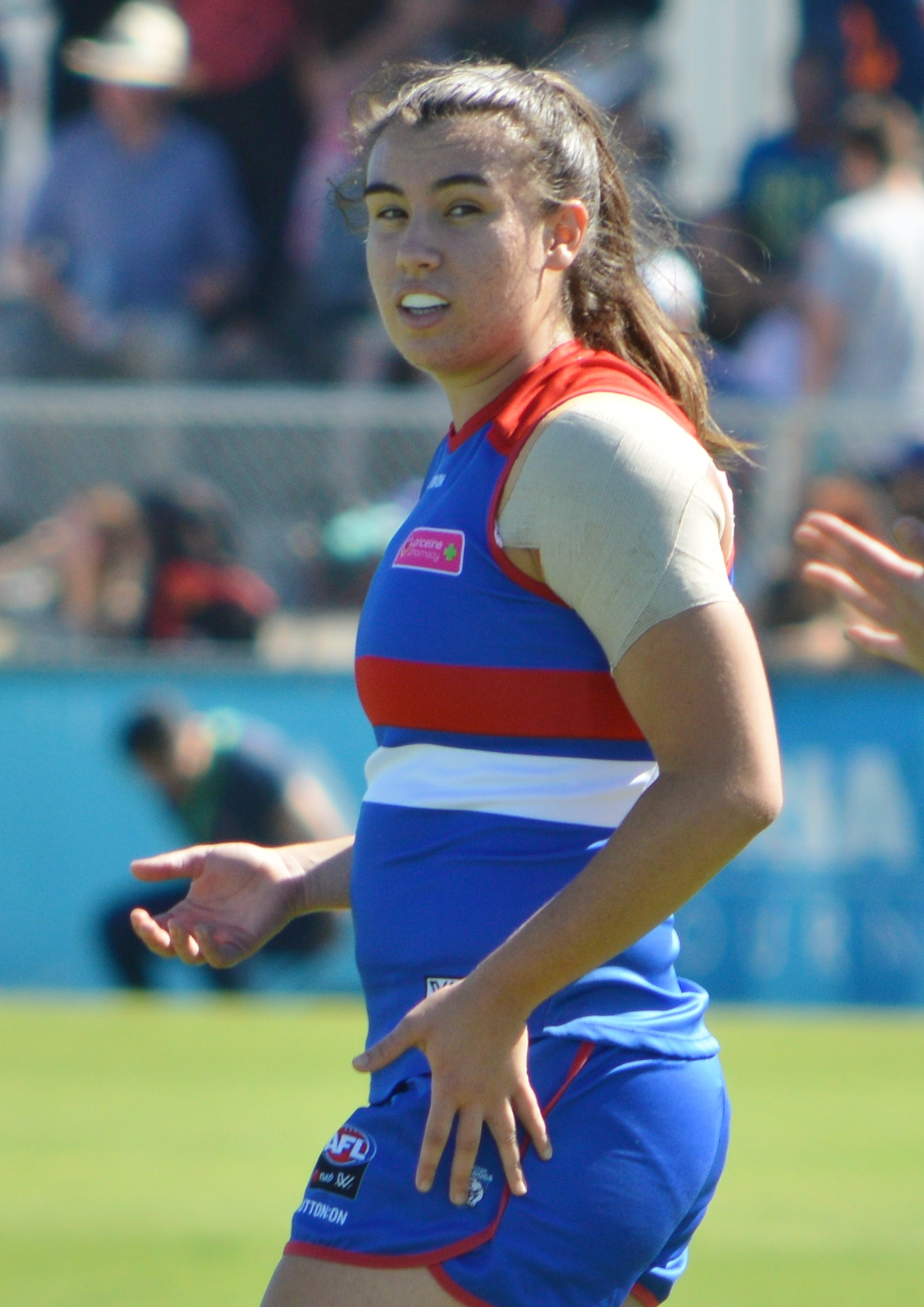 Bonnie Toogood during the round 1 2018, AFL Women's match between the Western Bulldogs and Fremantle.